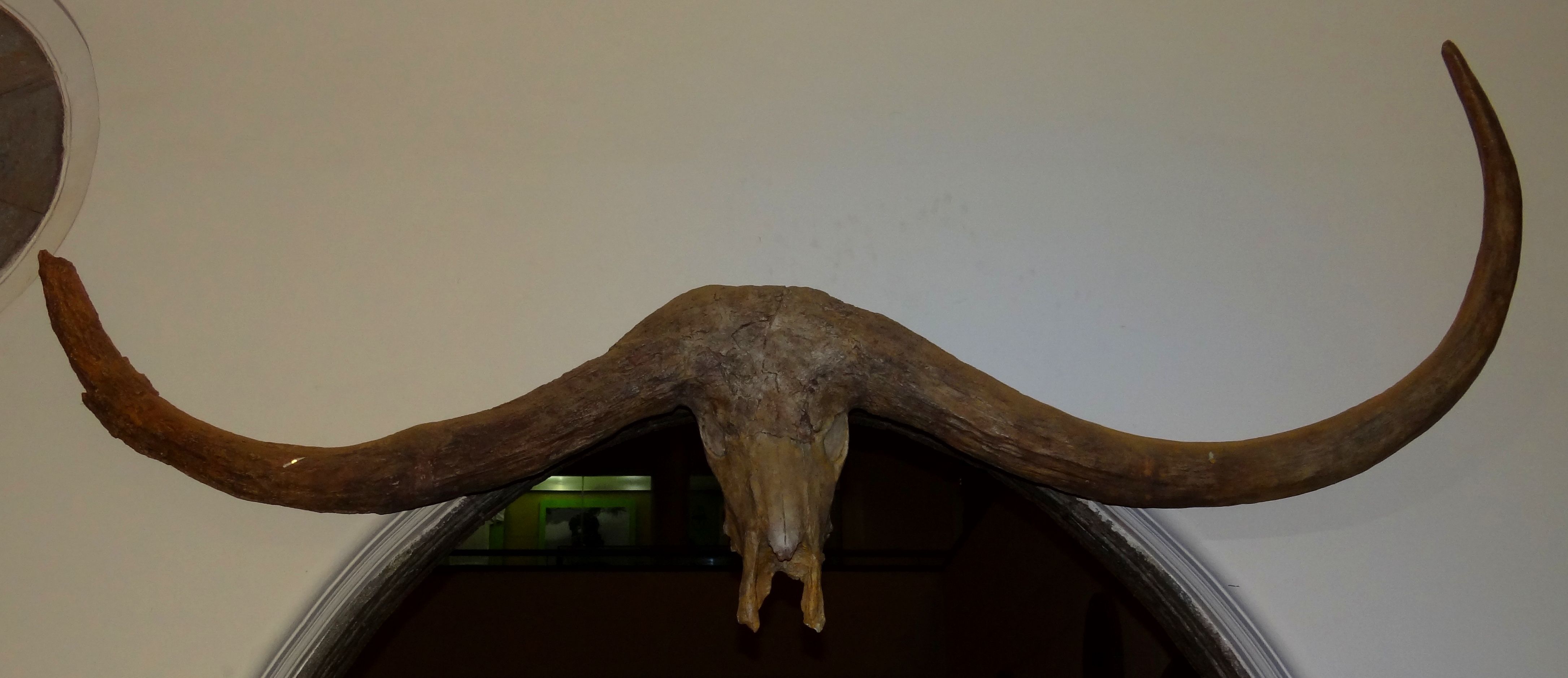 The fossil skull of a gient longhorned buffalo (Pelorovis antiquus) on display at the Nairobi National Museum in Kenya.